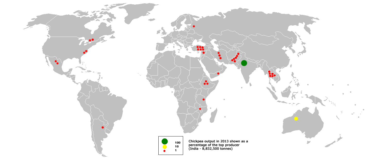 This bubble map shows the global distribution of chickpea output in 2013 as a percentage of the top producer (India - 8,832,500 tonnes). This map is consistent with incomplete set of data too as long as the top producer is known. It resolves the accessibility issues faced by colour-coded maps that may not be properly rendered in old computer screens. Data was extracted on 22th February 2015 from Based on Image:BlankMap-World-v2.png